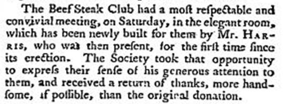 Paragraph scanned from the Morning Herald, London, 25 February 1793. Published in 1793!